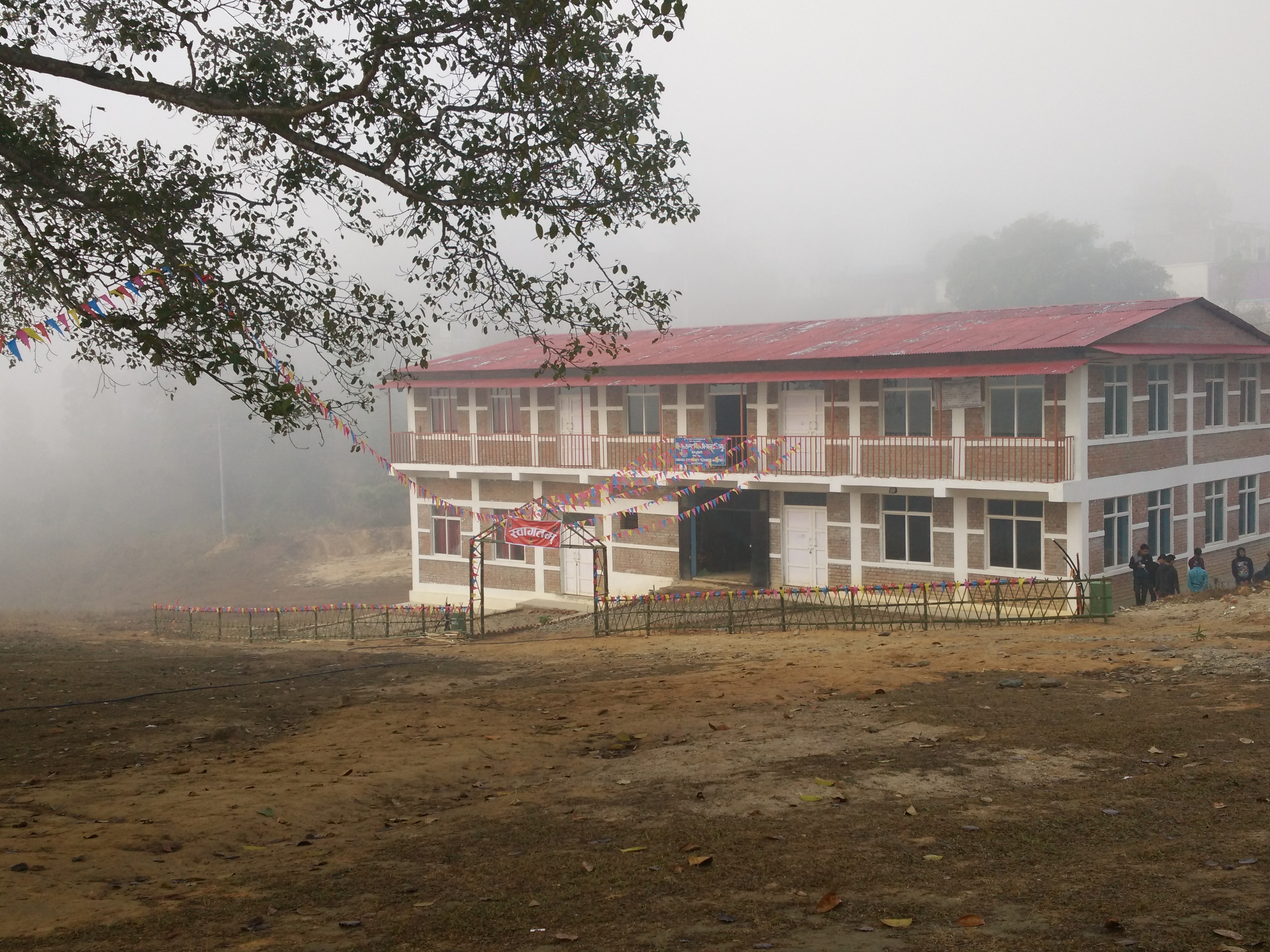 Sindhuli Community Technical Institute is situated on Kamalamai Municipality of Sindhuli district. It's one of the best technical college around Nepal and is affiliated under CTEVT(Council for Technical Education and Vocational Training). It has the unique record on results of examination i.e. it's first batch of Civil department has topped Nepal the whole 3 years course of Diploma in Civil Engineering. The Chairman of this institute is Dr. Shuresh Raj Sharma who is also founder of Kathmandu University.